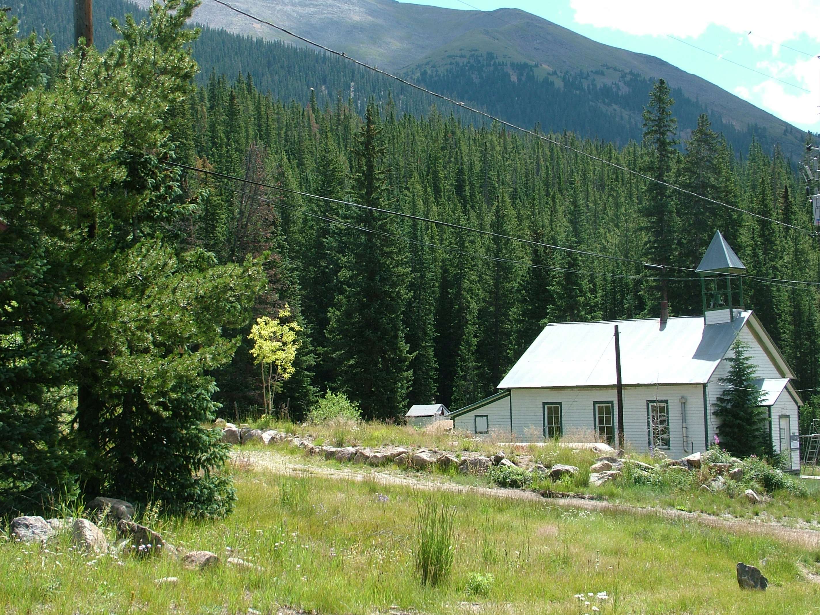 The historic schoolhouse in the "ghost town" of Montezuma in the Colorado Rockies